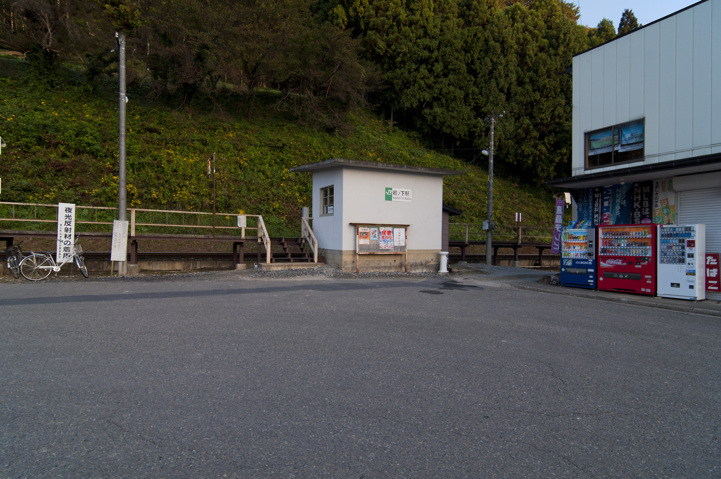 JR East Ofunato Line Iwanoshita Station